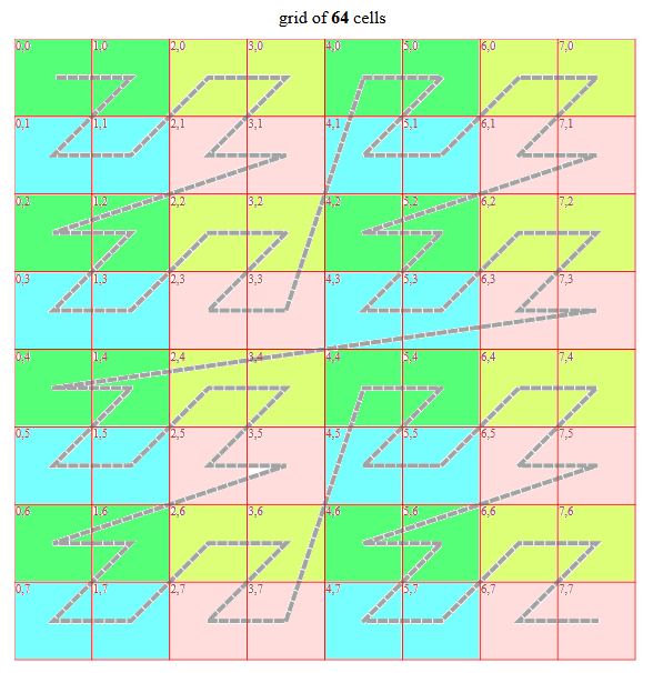 The construction of a degenerated curve from merged cells